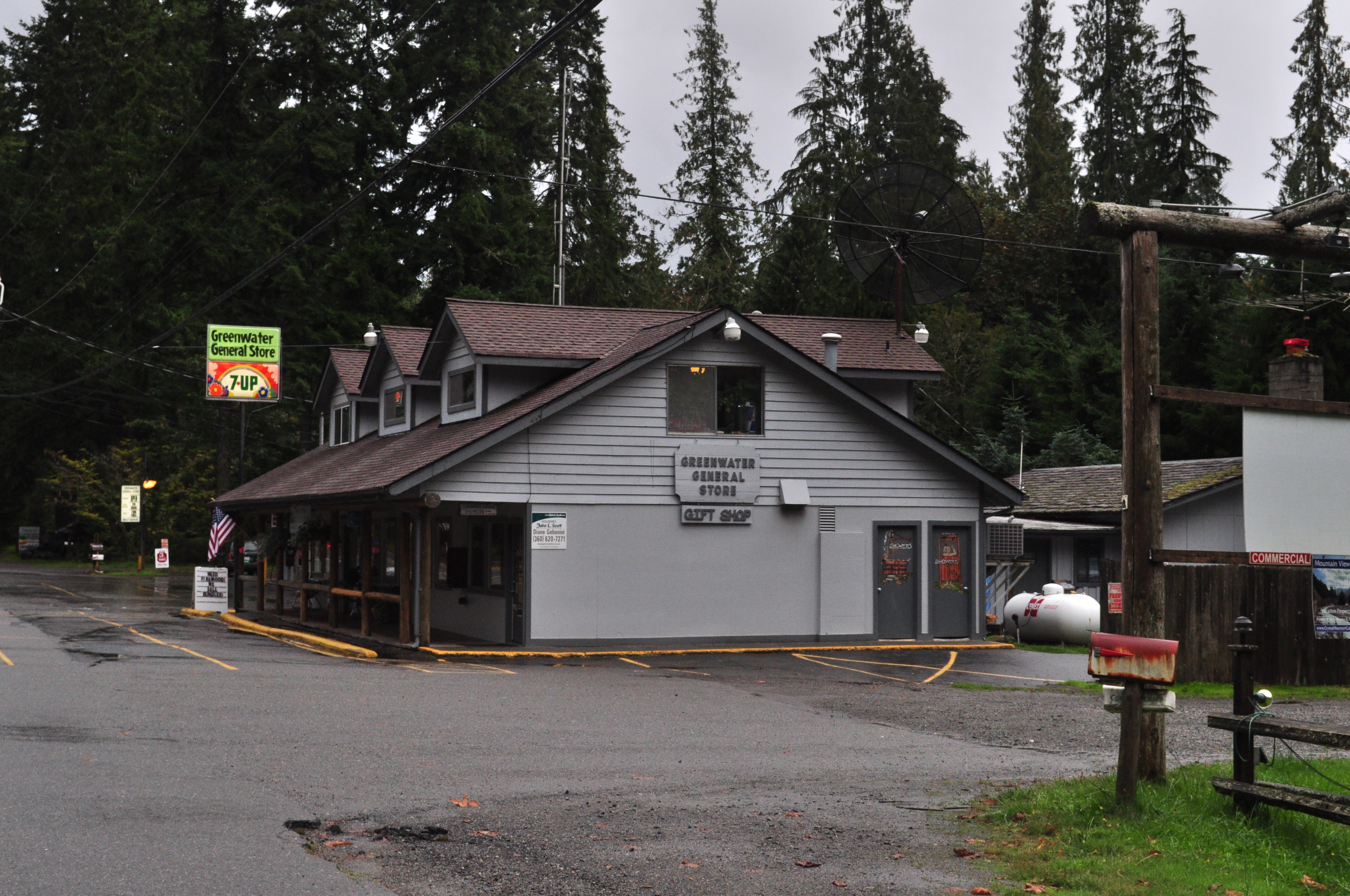 Greenwater General Store on Washington State Route 410, on your right as you entering Pierce County, Washington from King County.